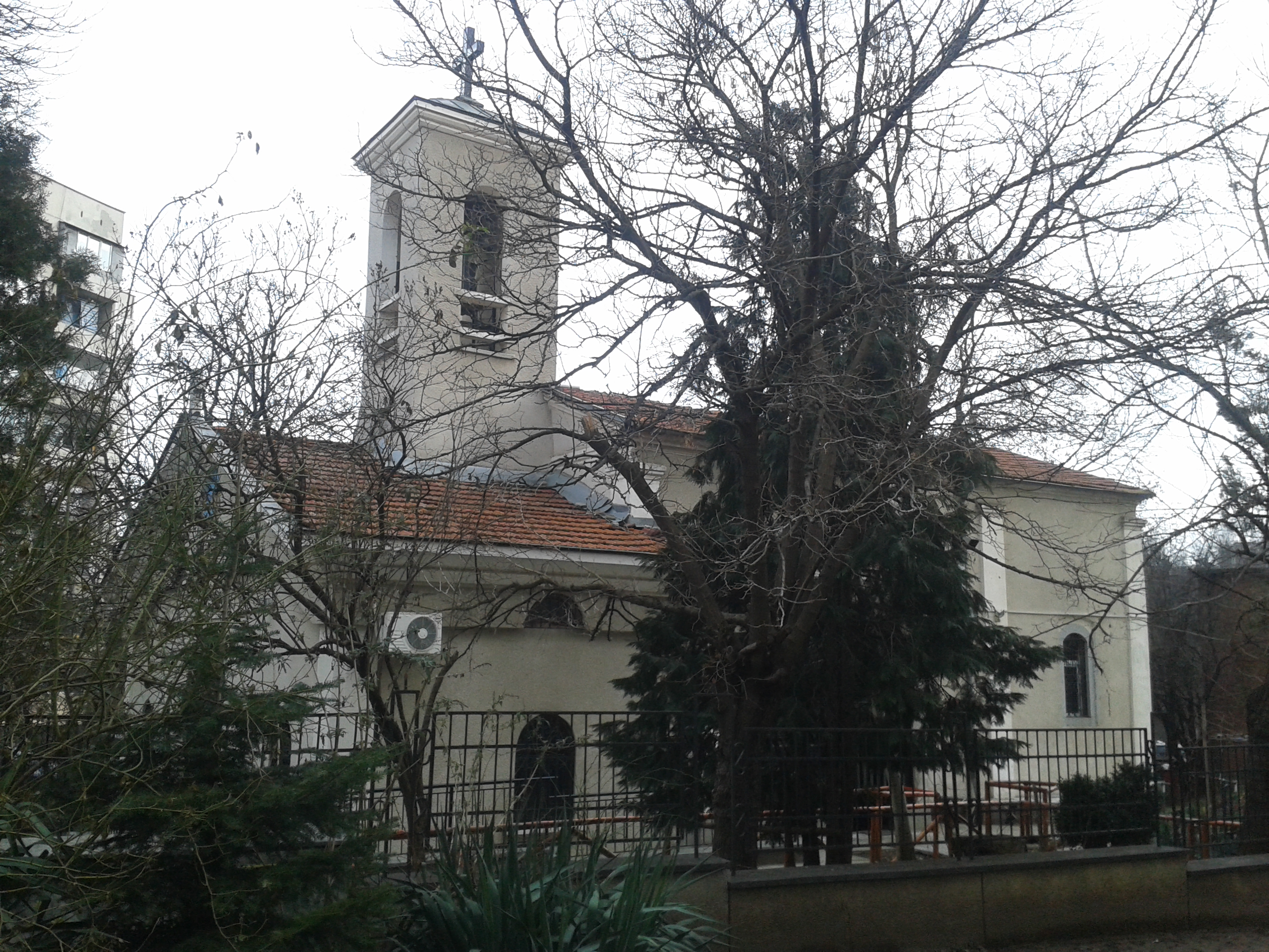 St George Church in Darvenitsa, Sofia, Bulgaria.